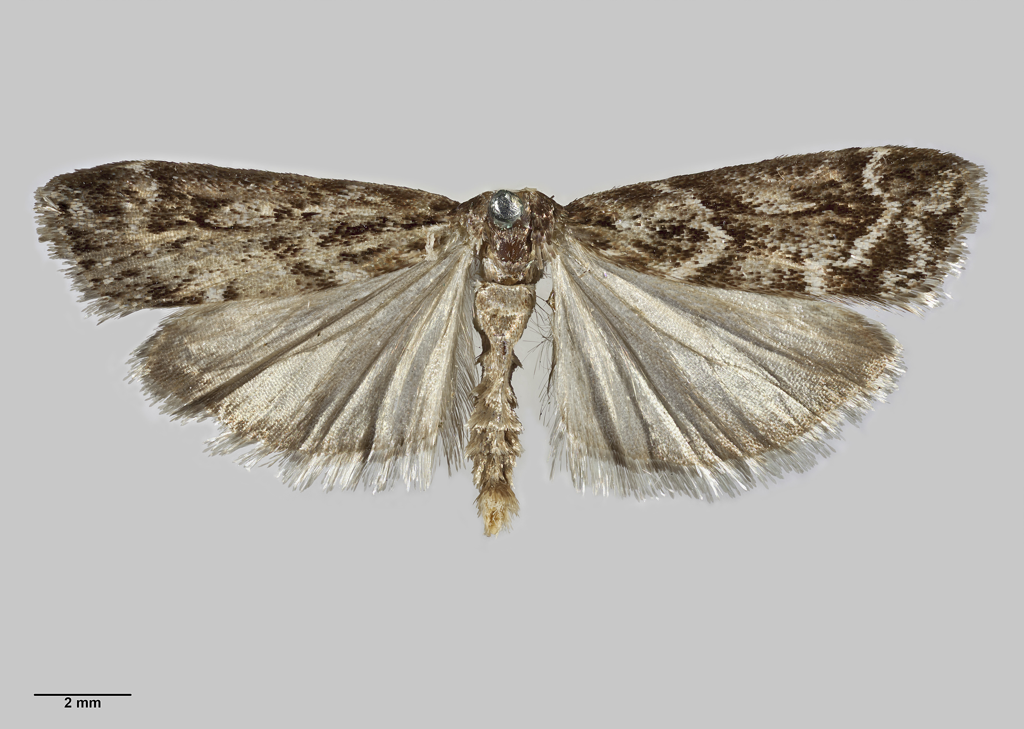 Male holotype specimen of Scoparia illota AMNZ21794 held at the Auckland War Memorial Museum.